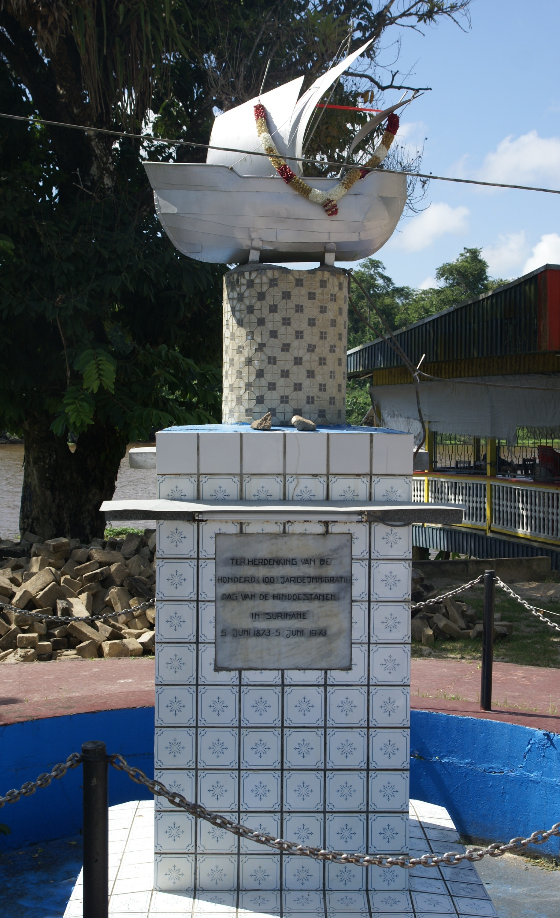 Monument 100 jaar Hindoestaanse immigratie, Groningen, Surinam. 1973.